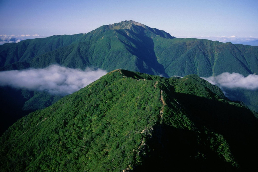 Komatsumine and Mount Senjō as seen from Mount Kaikoma